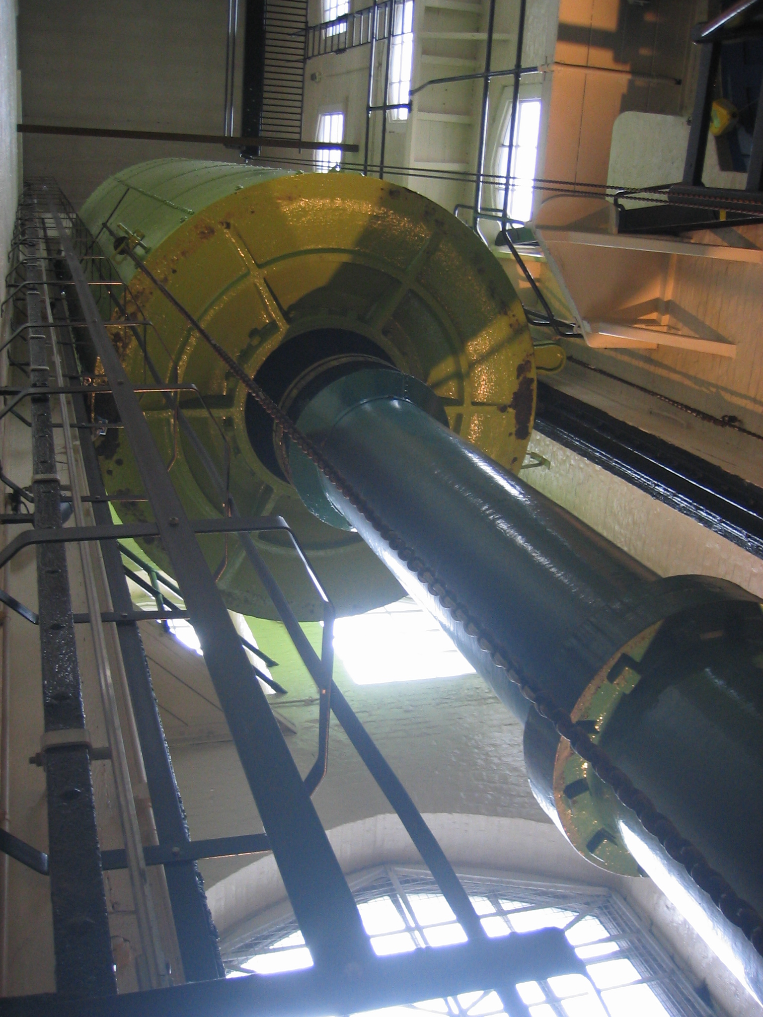 London